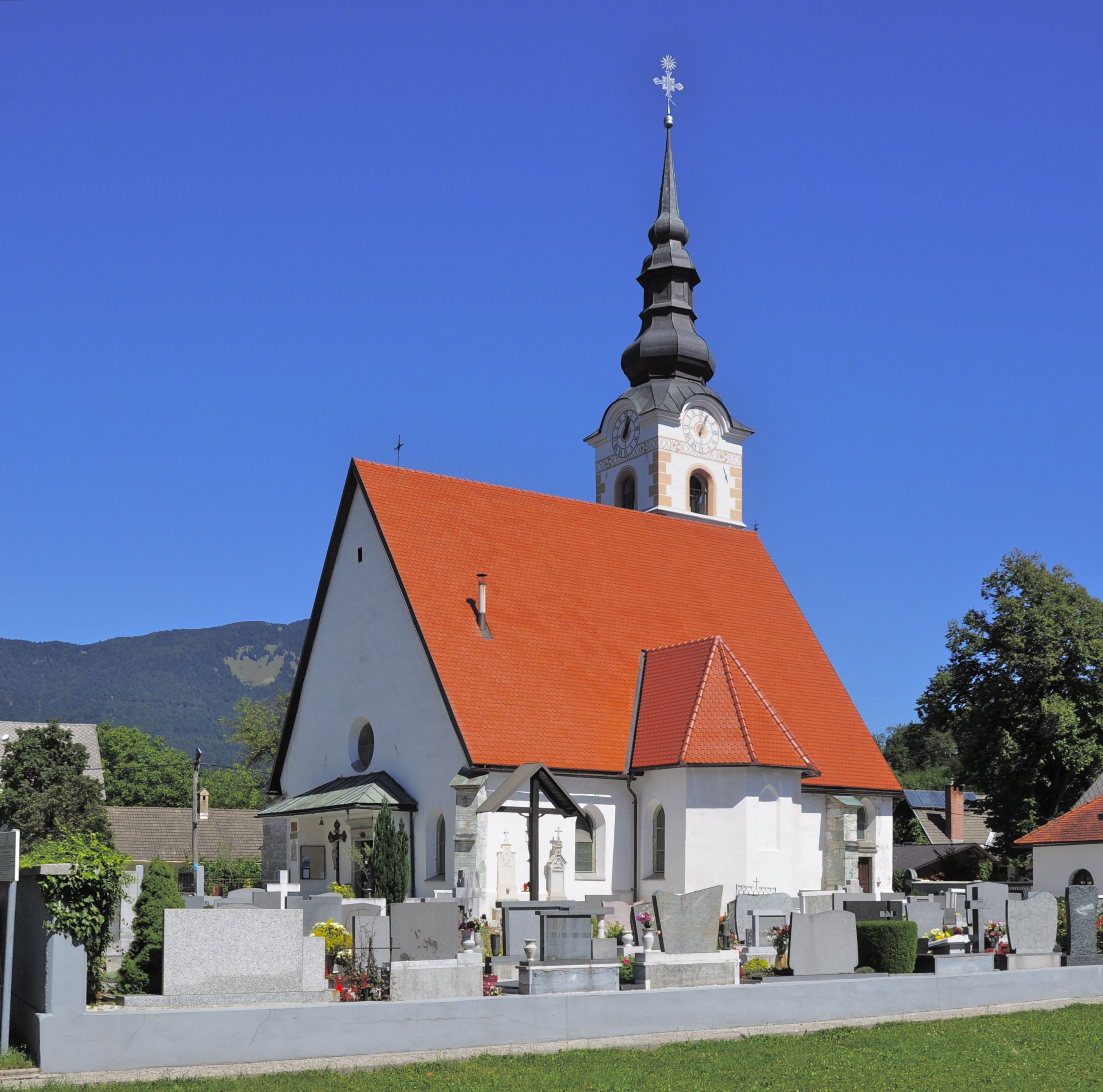 Parish church Saint Andrew in Mošnje, municipality Radovljica / Upper Carniola / Slovenia / EU